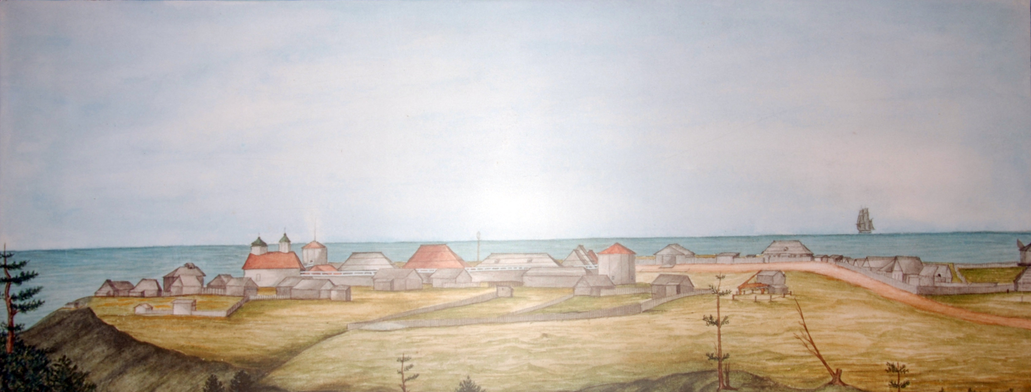 Settlement Fort Ross, 1841